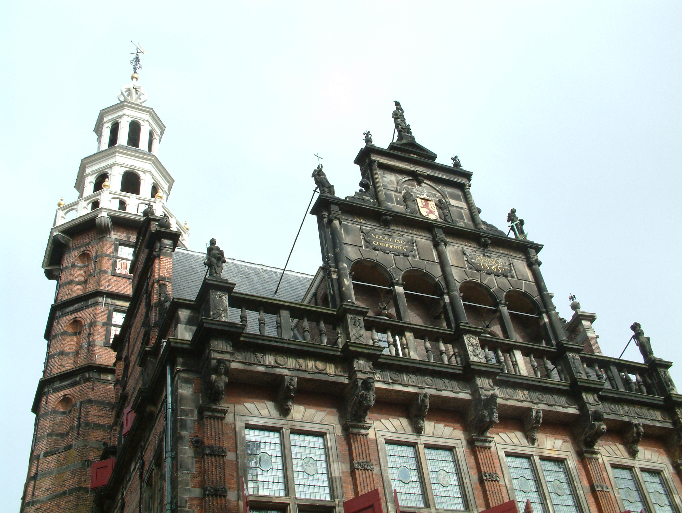 The old townhall of The Hague. The statues on the facade depict "Faith", "Hope", "Love", "Strength", and "Justice". They were made by the Hague sculptor Jan Baptist Xavery before 1742.